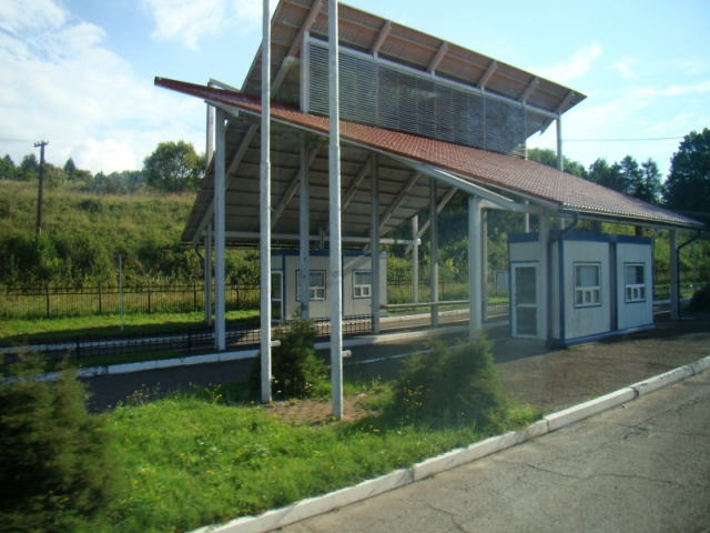 Poland–Ukraine border crossing Krościenko-Smilnytsya